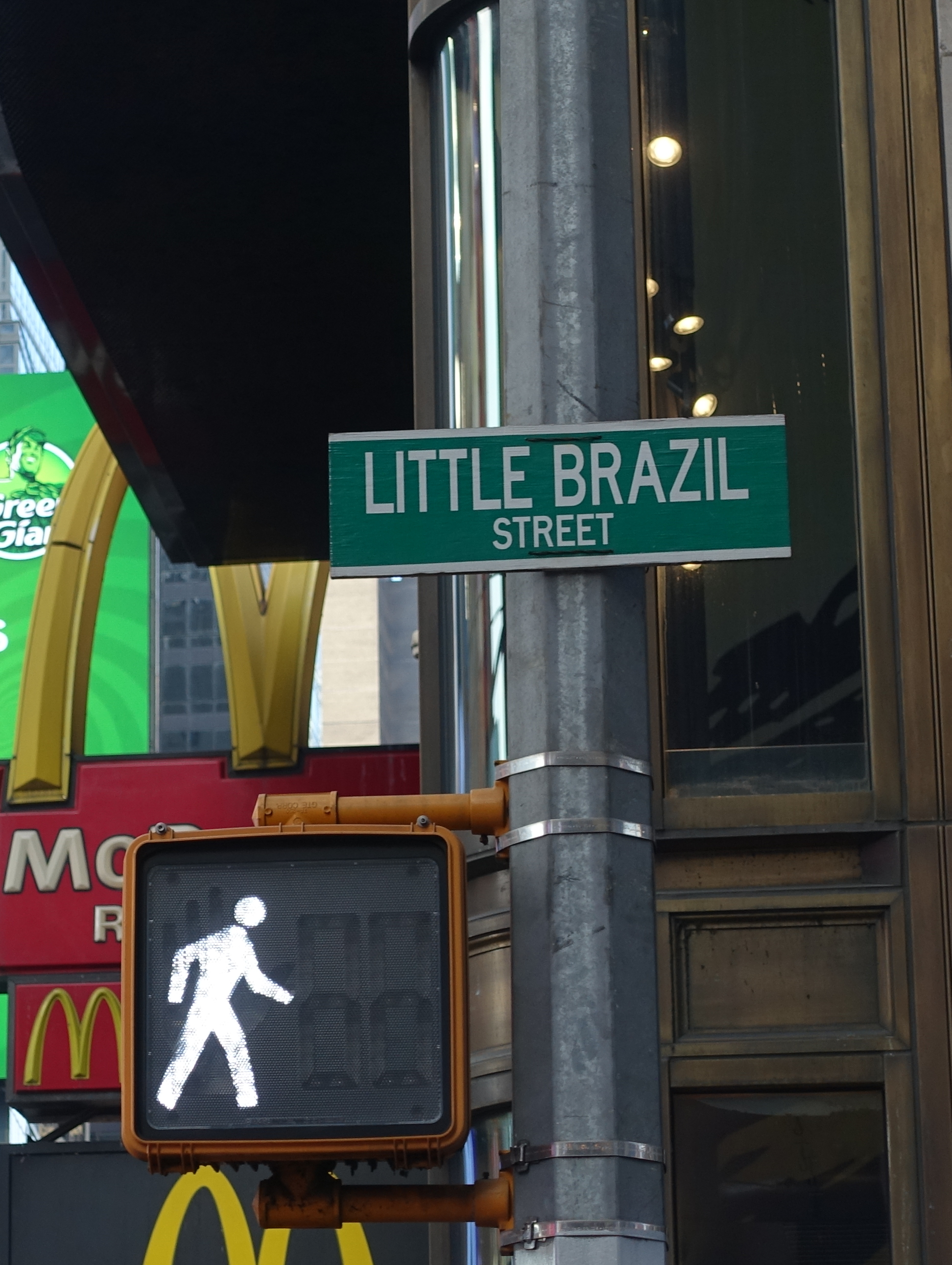 Brazilian Day 2018 New York street sign Little Brazil 46th street at 5ft Avenue